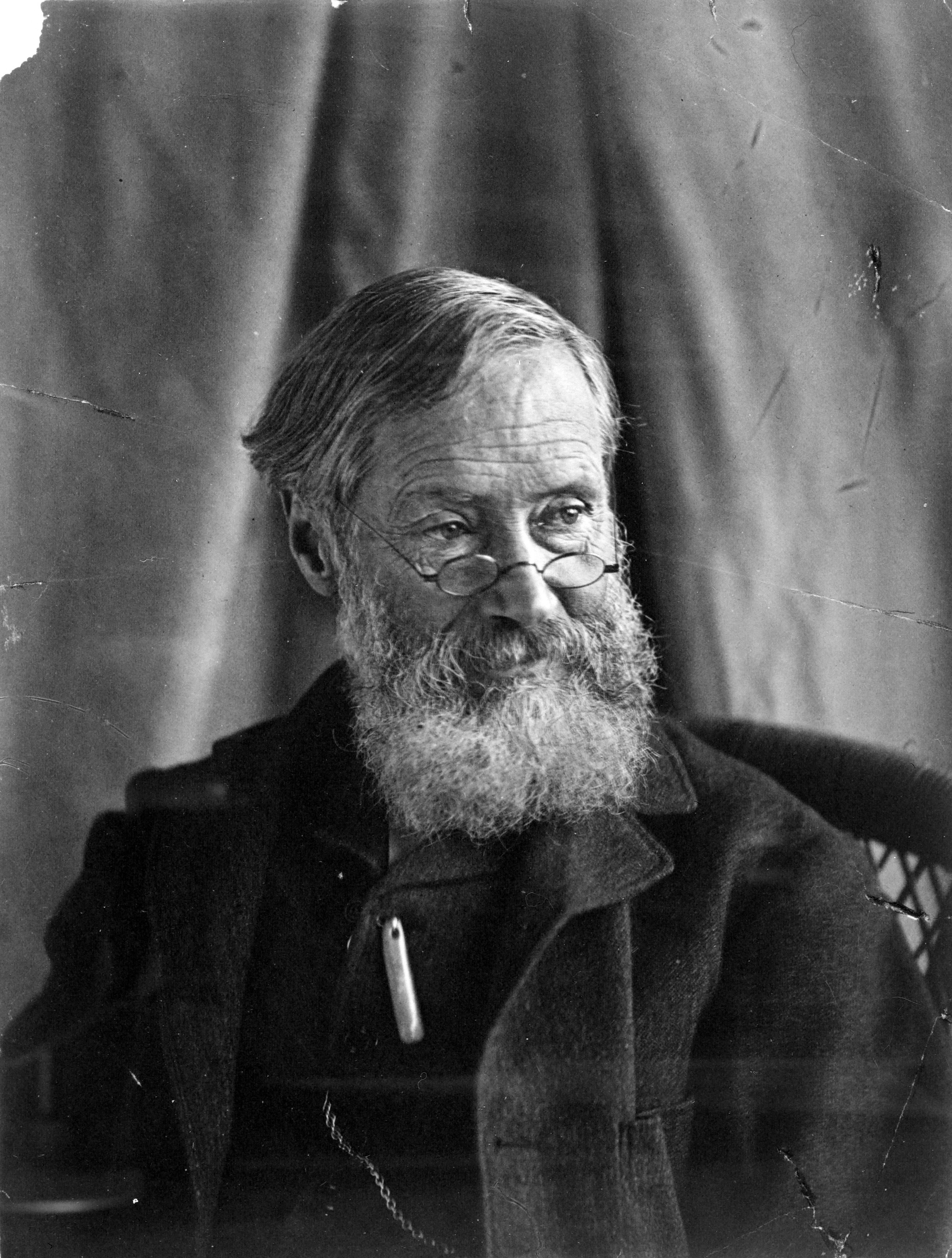 Head and shoulders portrait of James Crowe Richmond, engineer, artist, politician and journalist.